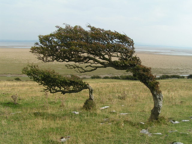 Windblown Hawthorn trees, Humphrey Head. Little doubt of the prevailing wind direction here...